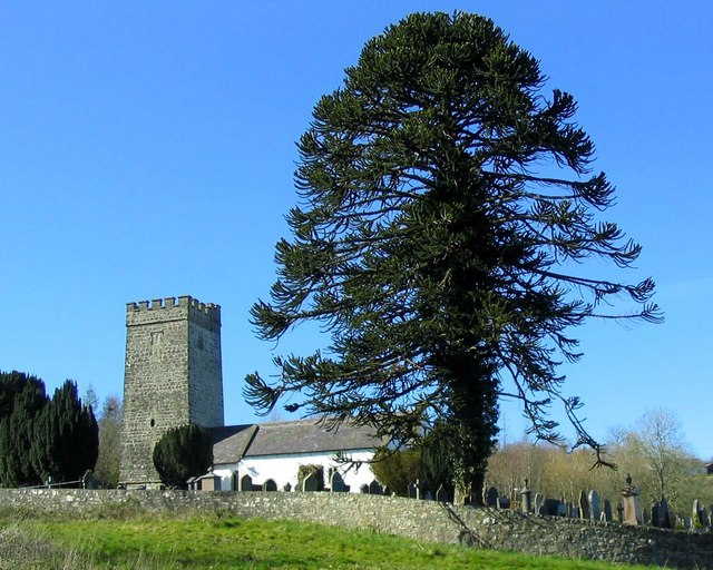 Eglwys Llanwenog The church is built in the sacred enclosure at Llanwenog, the foundations of the original church are thought to date back to the 6th century, however the present church belongs to the 13th Century.